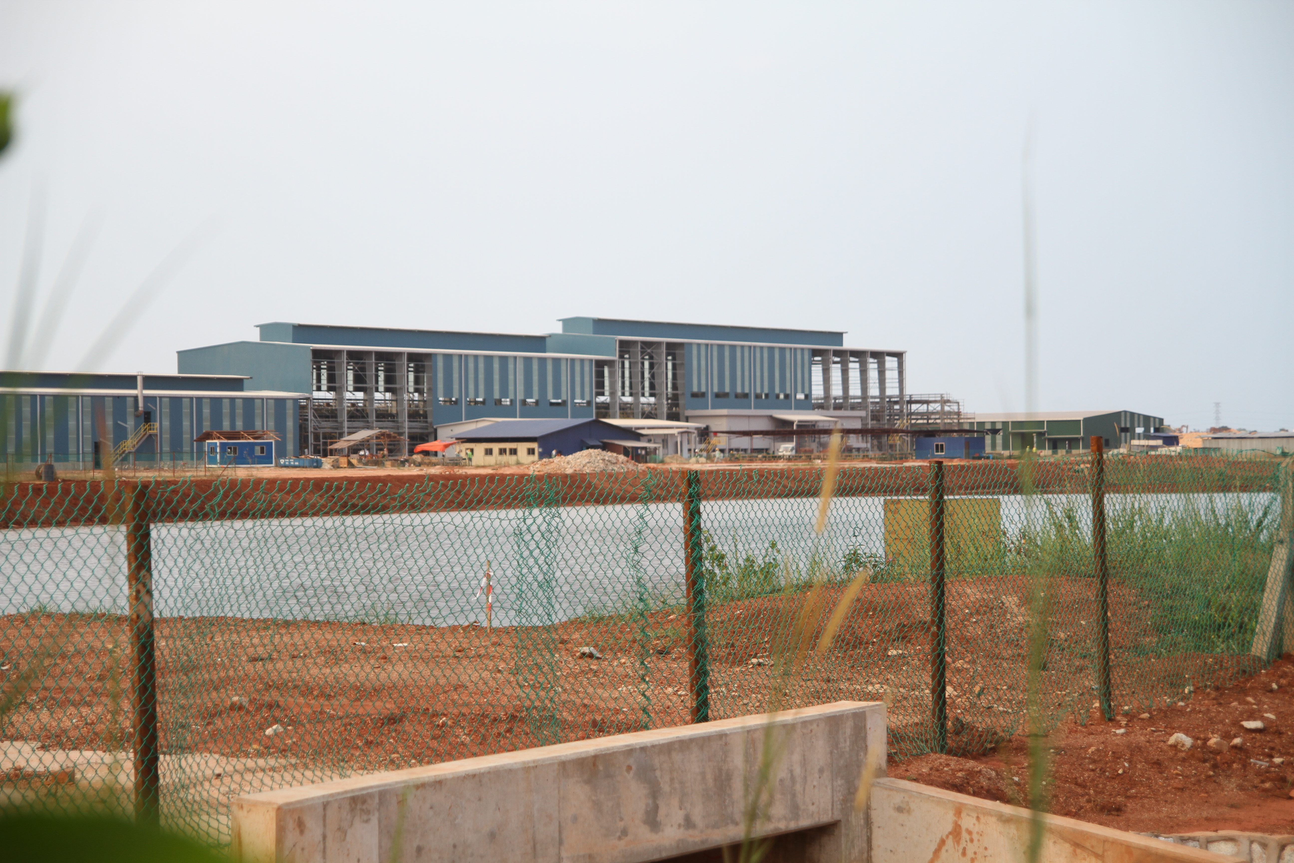 About as close as I was brave to get